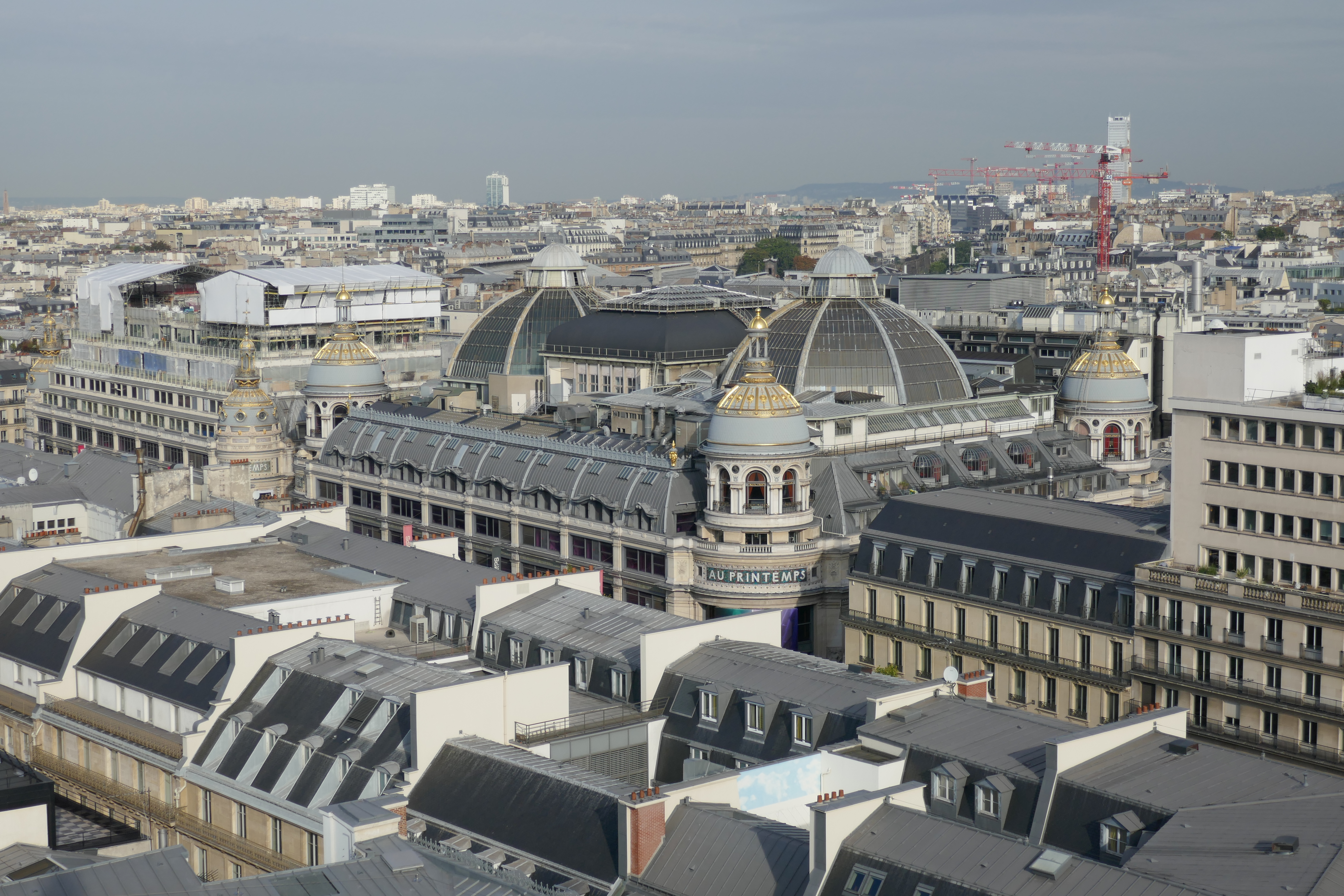 Printemps viewed from Opéra Garnier's roof